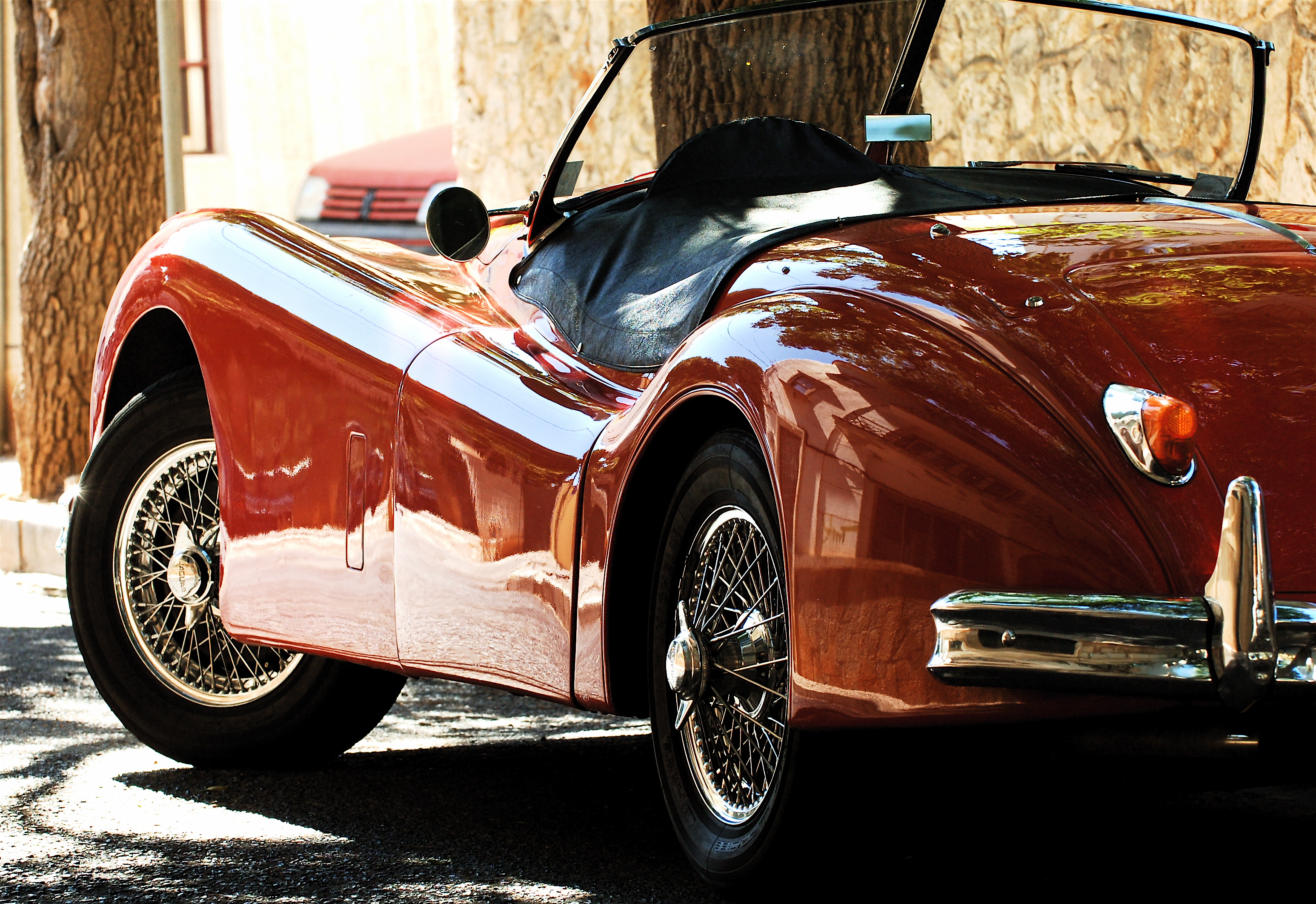 Red Jaguar XK140 in Cascais, Portugal